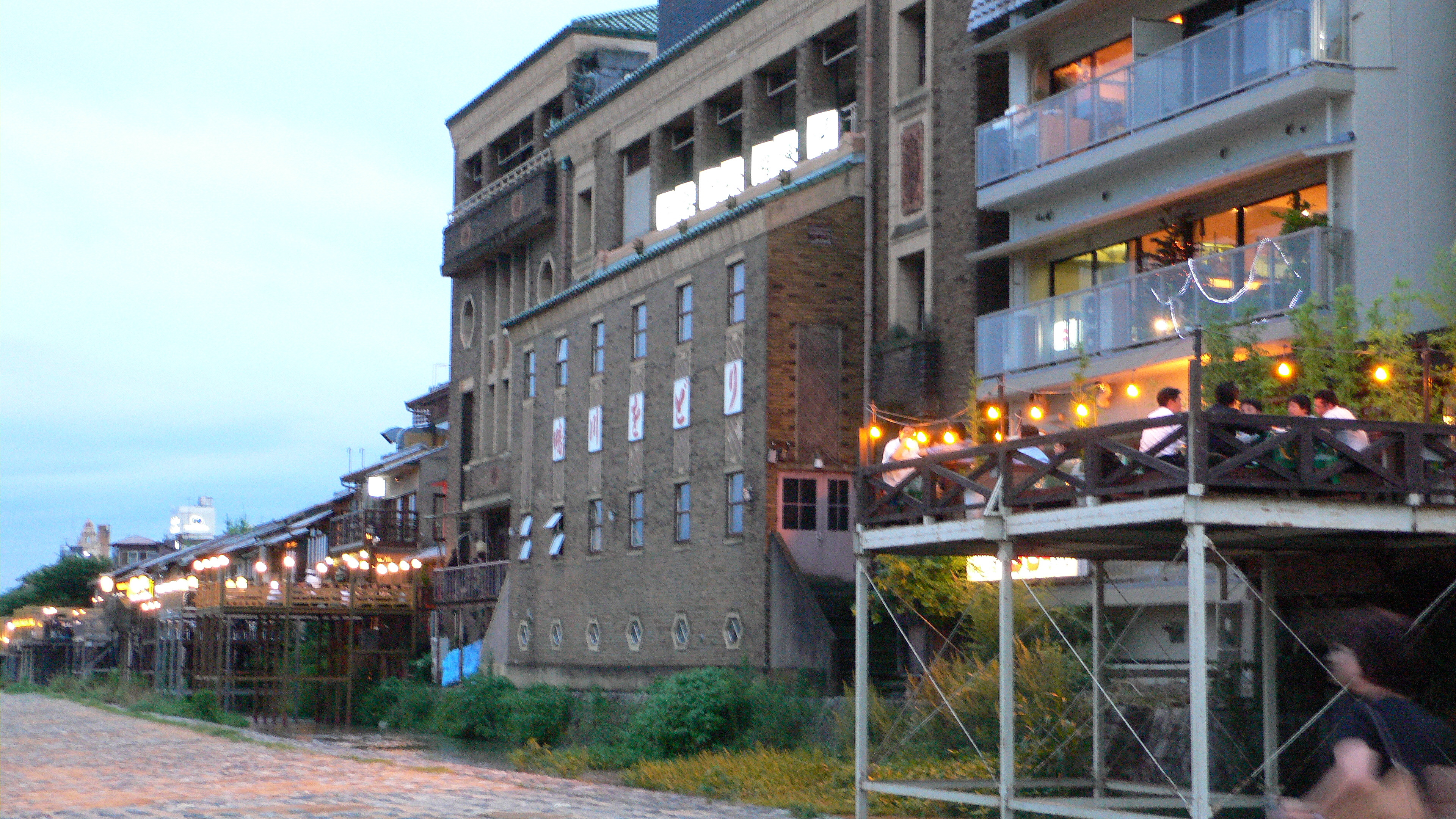 The old theatre on Pontocho